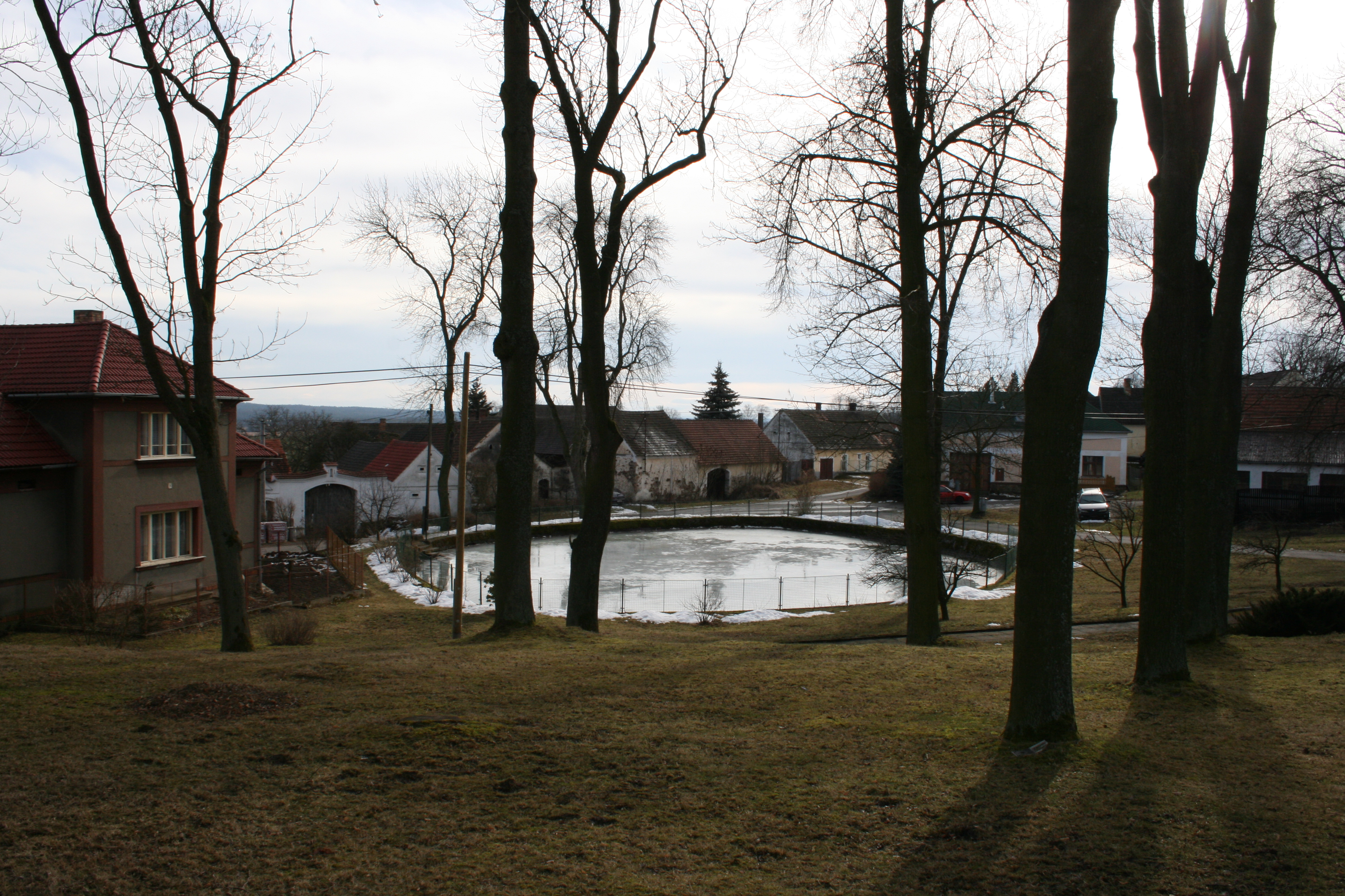 Pleše village, Jindřichův Hradec district, Czech Republic.